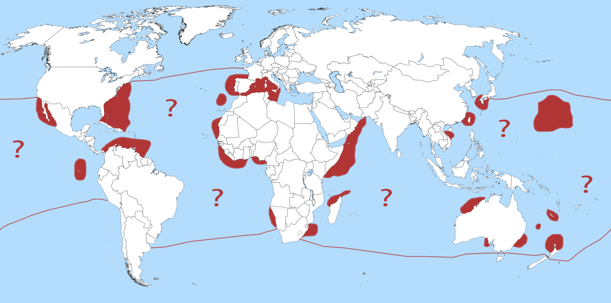 The Distribution of the Bigeye Thresher